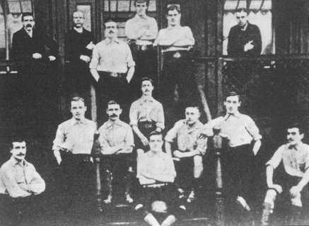 The Everton FC championship winning team of 1891